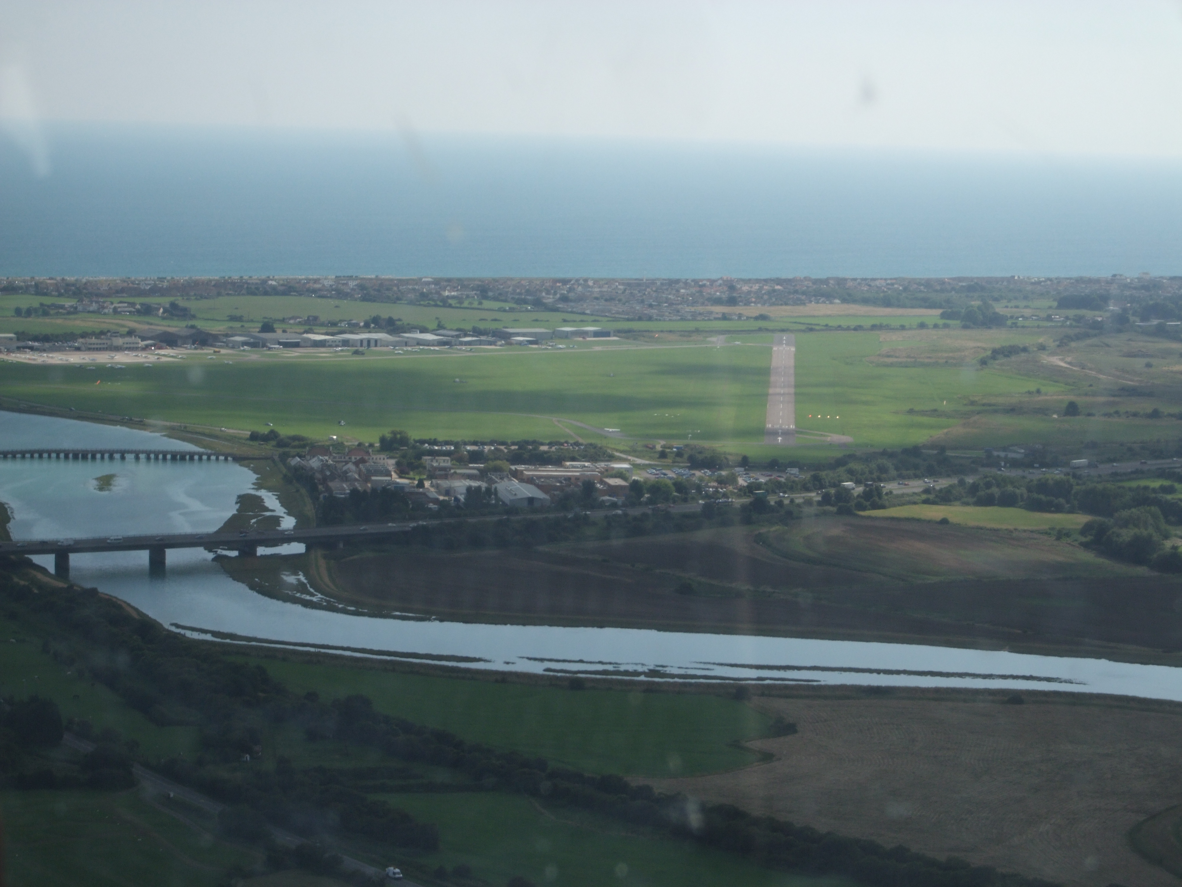 Shoreham Airport, final approach to runway 20.